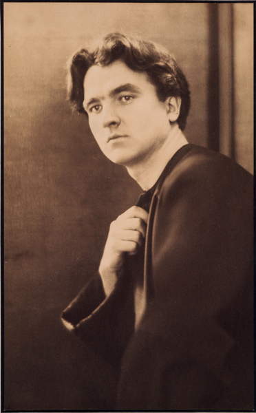 Herman Sandby by Adolf de Meyer 1903-1904